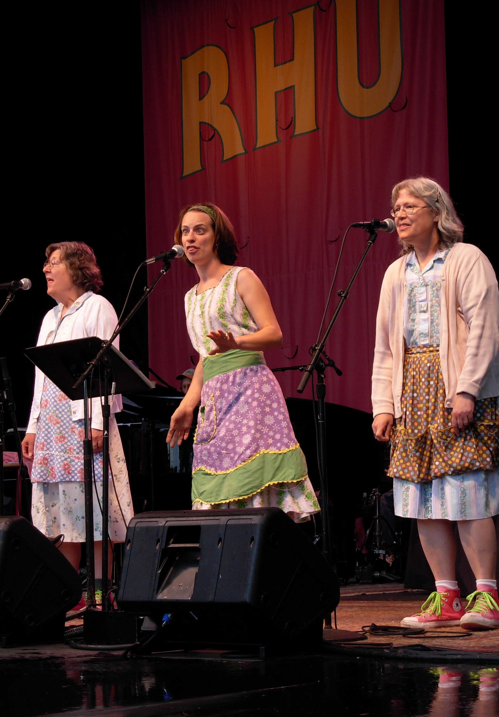 The Rhubarb Sisters singing on A Prairie Home Companion in Lanesboro, Minnesota.